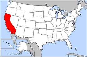 Public domain map courtesy of The General Libraries, The University of Texas at Austin, modified to highlight state boundaries.